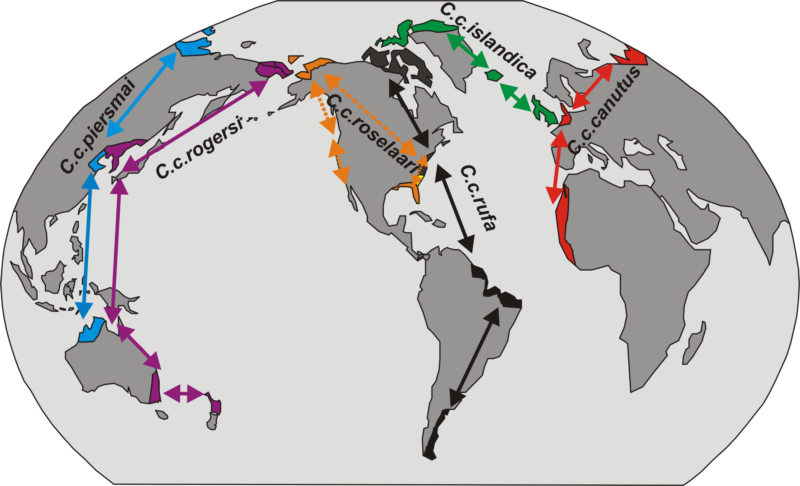 Summary Description: Distribution of the Red Knot, Calidris canutus. Source: Own work Author: Graphic made by Deborah M. Buehler Date: 6 August 2006 Permission: Creative Commons, attribution